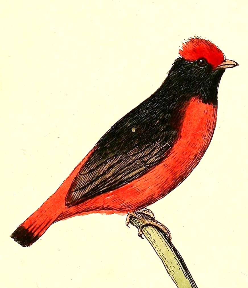 « Ampelis carnifex » = Phoenicircus carnifex (Guianan Red Cotinga)